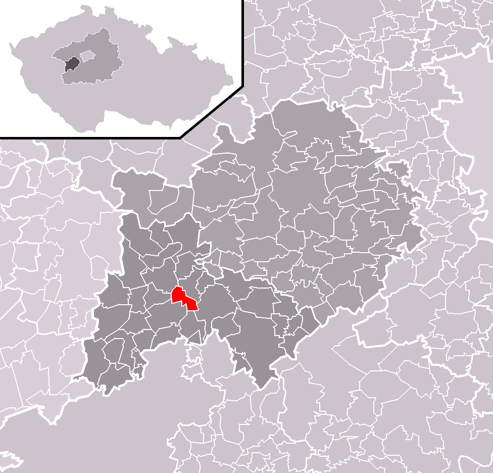 Location of Kotopeky municipality within Beroun District and administrative area of Hořovice as a Municipality with Extended Competence.